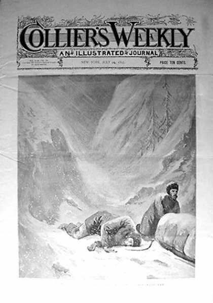 Cover of Collier's Weekly